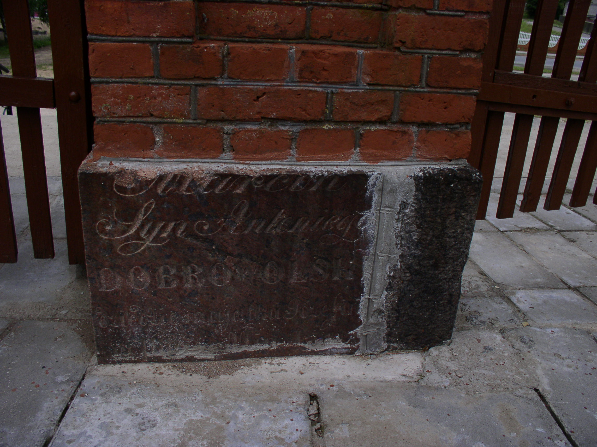 Church of Saint Alex. Ivyanets, Belarus.